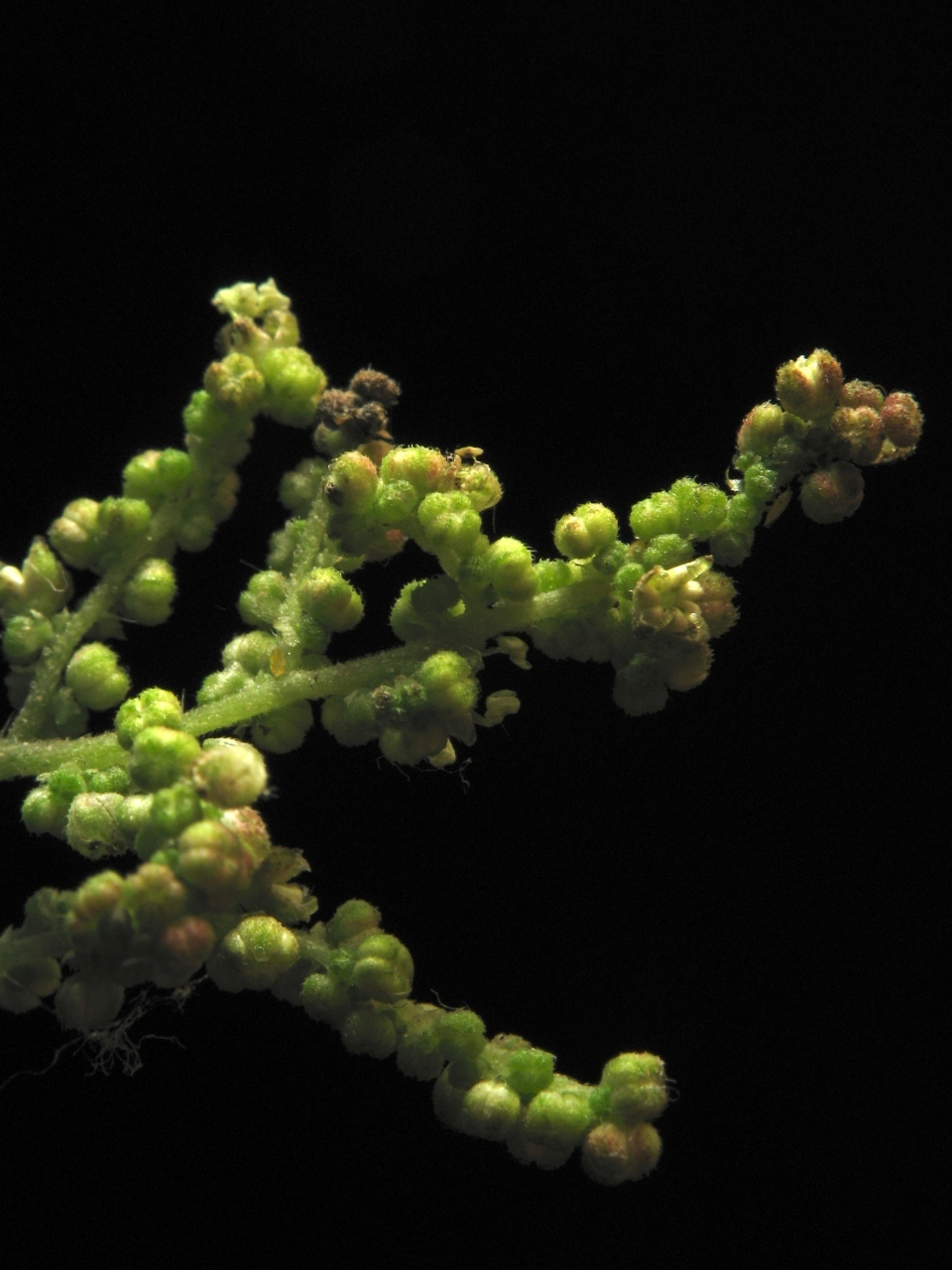 a flowering male Urtica dioica